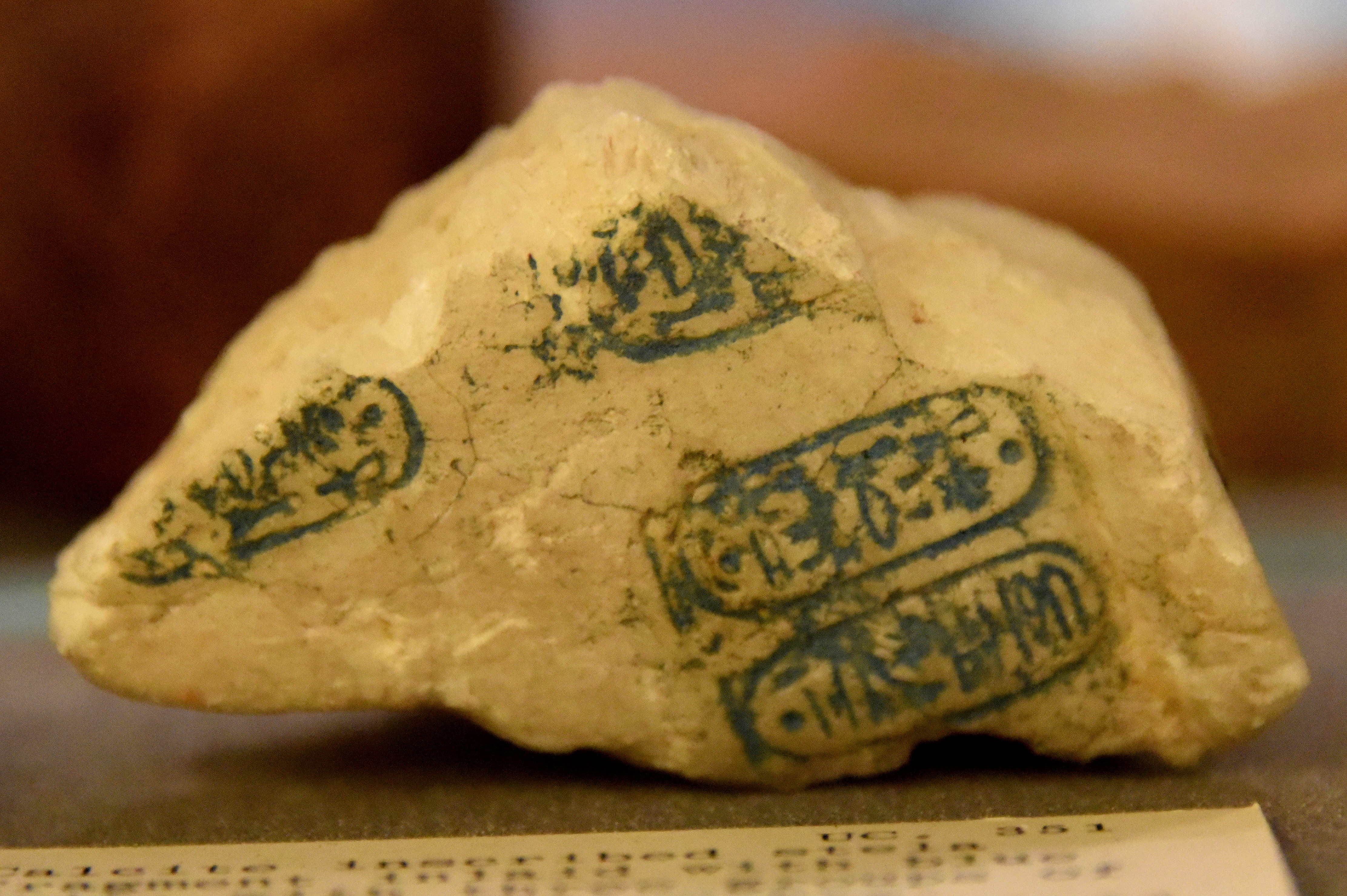 Fragment of a stela, showing parts of 3 late cartouches of Aten, filled in with blue frit. There is a rare intermediate form of God's name. Re-Horakhty lives, who rejoices on the horizon in his name 'Re the father, who has come as Aten. Alabaster calcite fragment. Reign of Akhenaten. From Amarna, Egypt. The Petrie Museum of Egyptian Archaeology, London. With thanks to the Petrie Museum of Egyptian Archaeology, UCL.